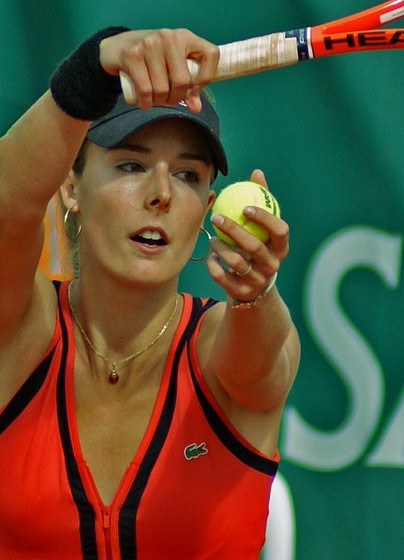 Alize Cornet